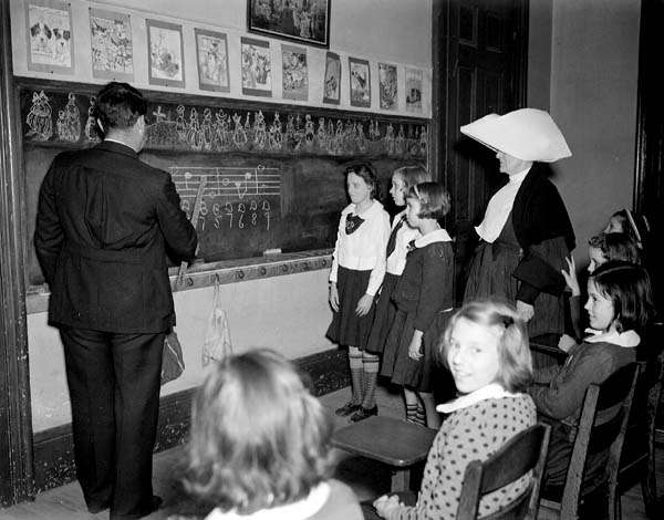 New Orleans, 1940: "Harmonica class at St. Elizabeth's Orphanage, Prytania Street and Napoleon Avenue. Mary Elizabeth McLaughlin, 13; Virginia Harris, 13; Hazel Bourgeois, 11. Sister Superior of St. Elizabeth's looks on as instructions take place. Interior." 1/10/1940